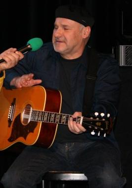 Paul Carrack in an interview with SWR moderator Bob Murawka (murawka cropped out).